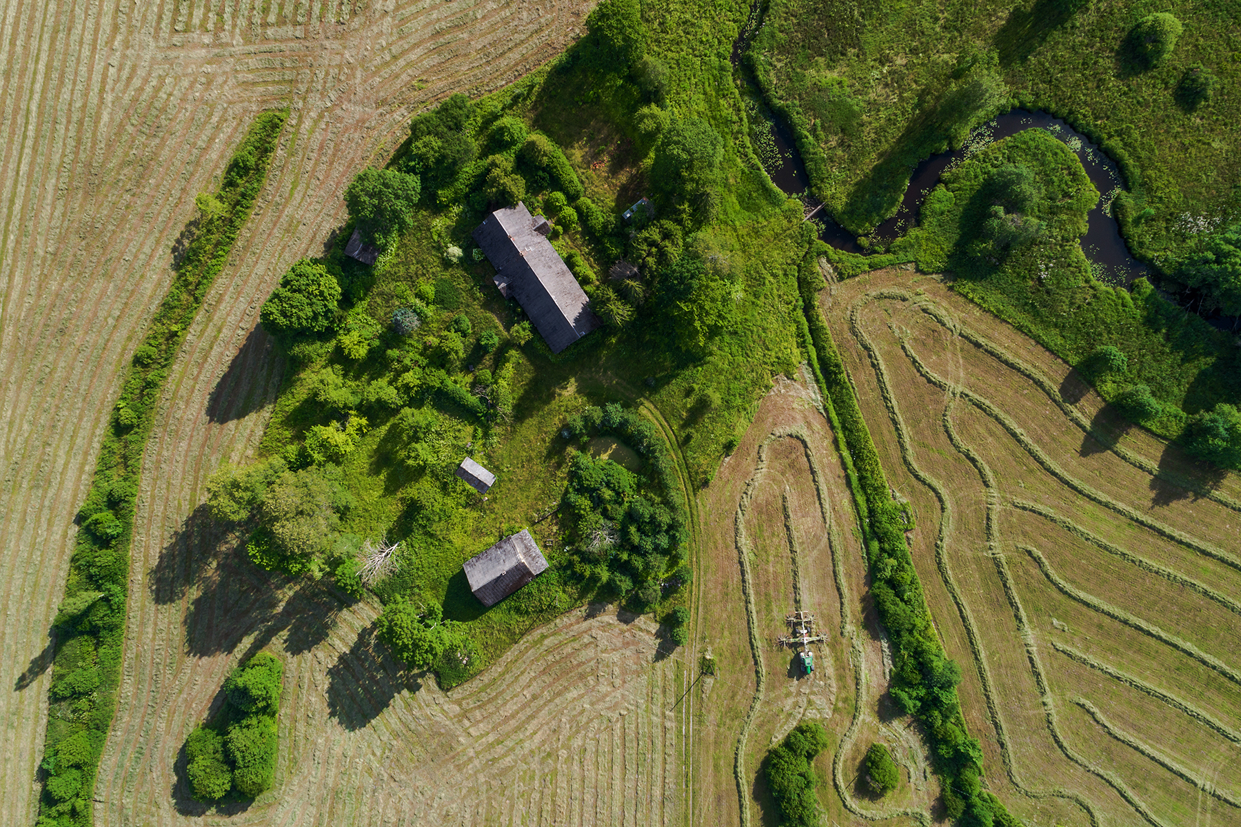 Heina kaarutamine Oriküla külas Pärnumaal